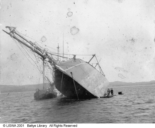 Thistle barque 1899 now shipwreck was owned by J & W Bateman of Fremantle